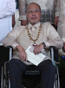 Portrait of Cirilo Bautista.